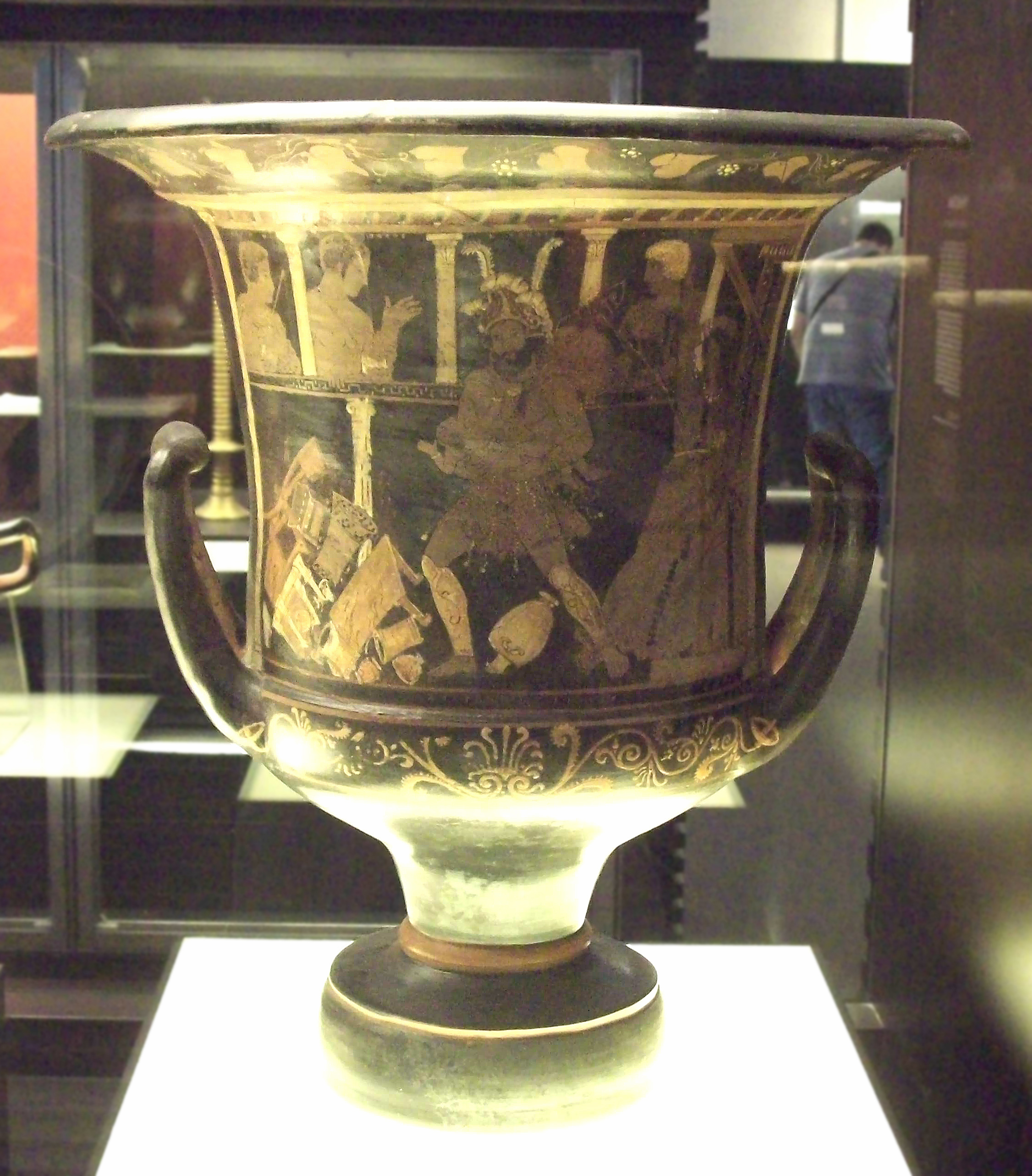 Calyx type.